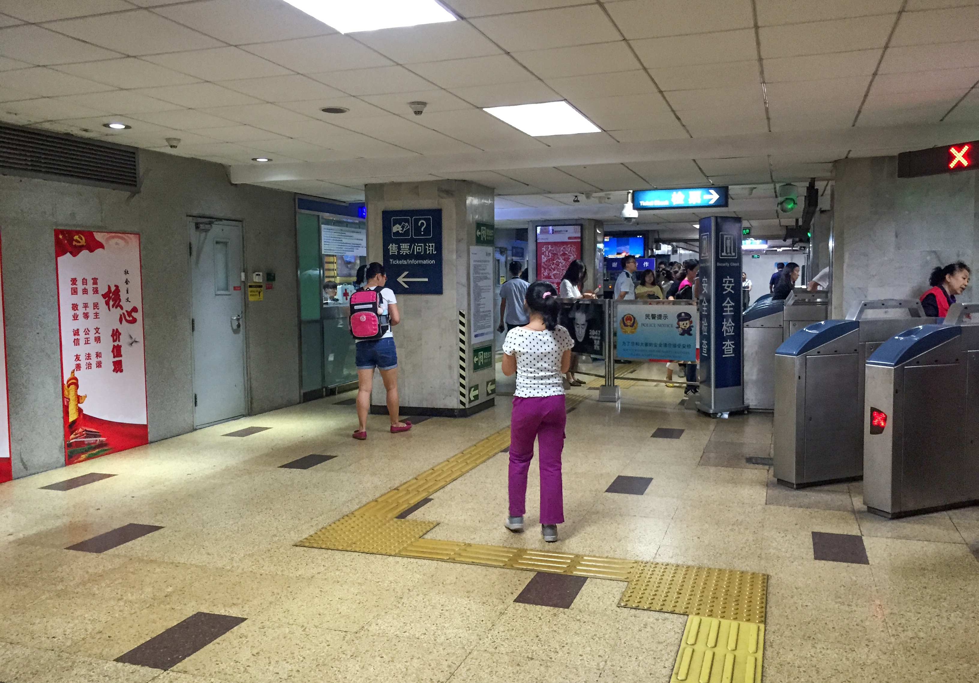 Phase I are exactly the same.